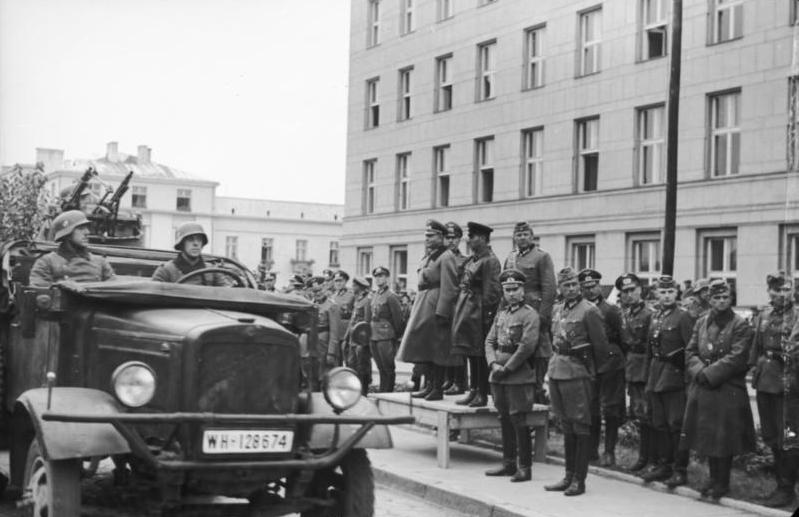 Poland, victory parade, Guderian, Kriwoschein